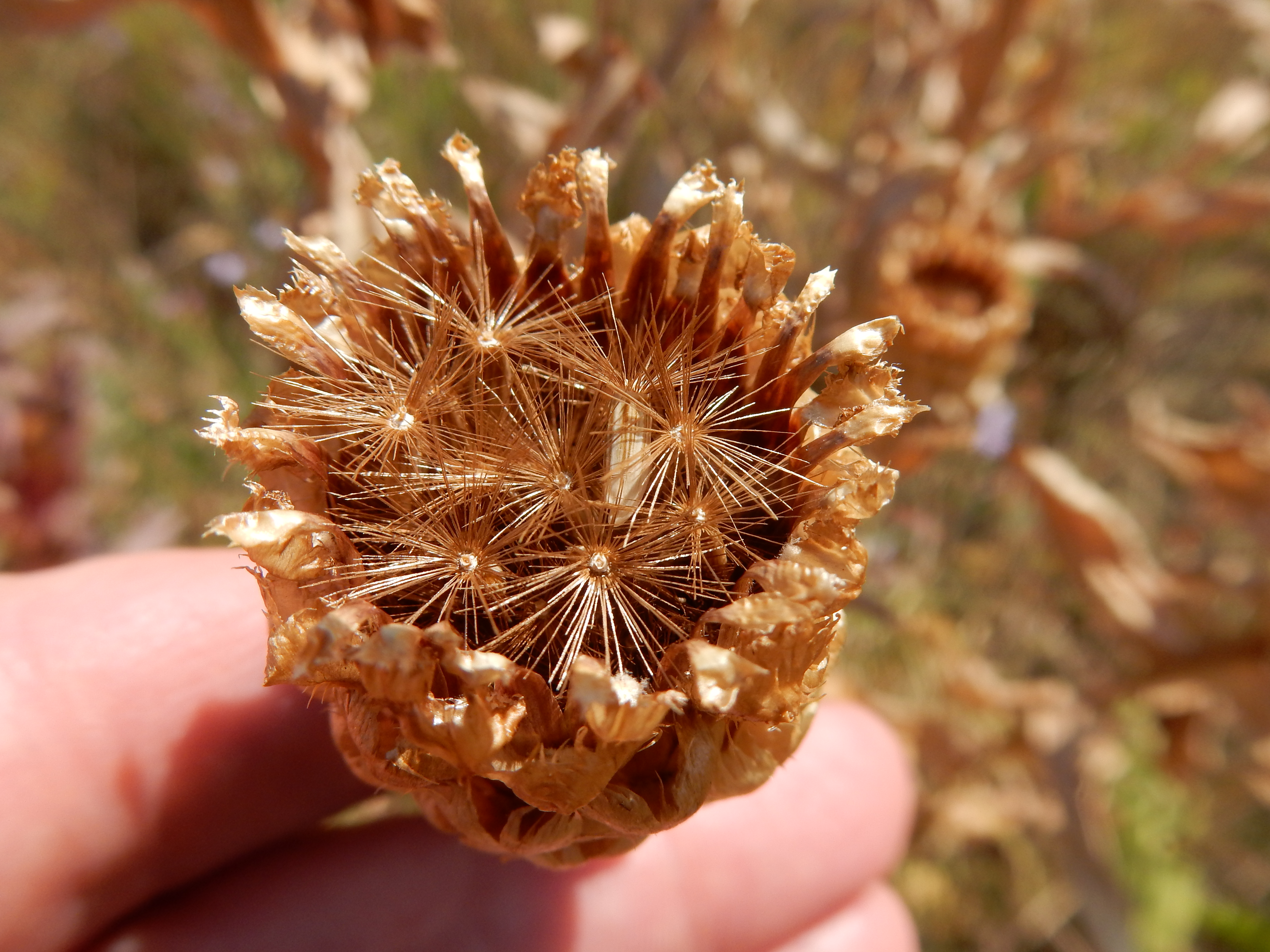 The broad receptacle is bristly with dense whitish hairs (a bristly receptacle is diagnostic for the genus Centaurea). The achenes are not beaked and bear a pappus of capillary bristles.